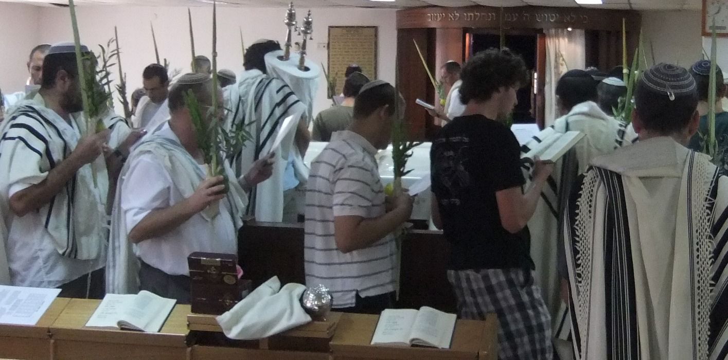 Hoshanot in Ofra